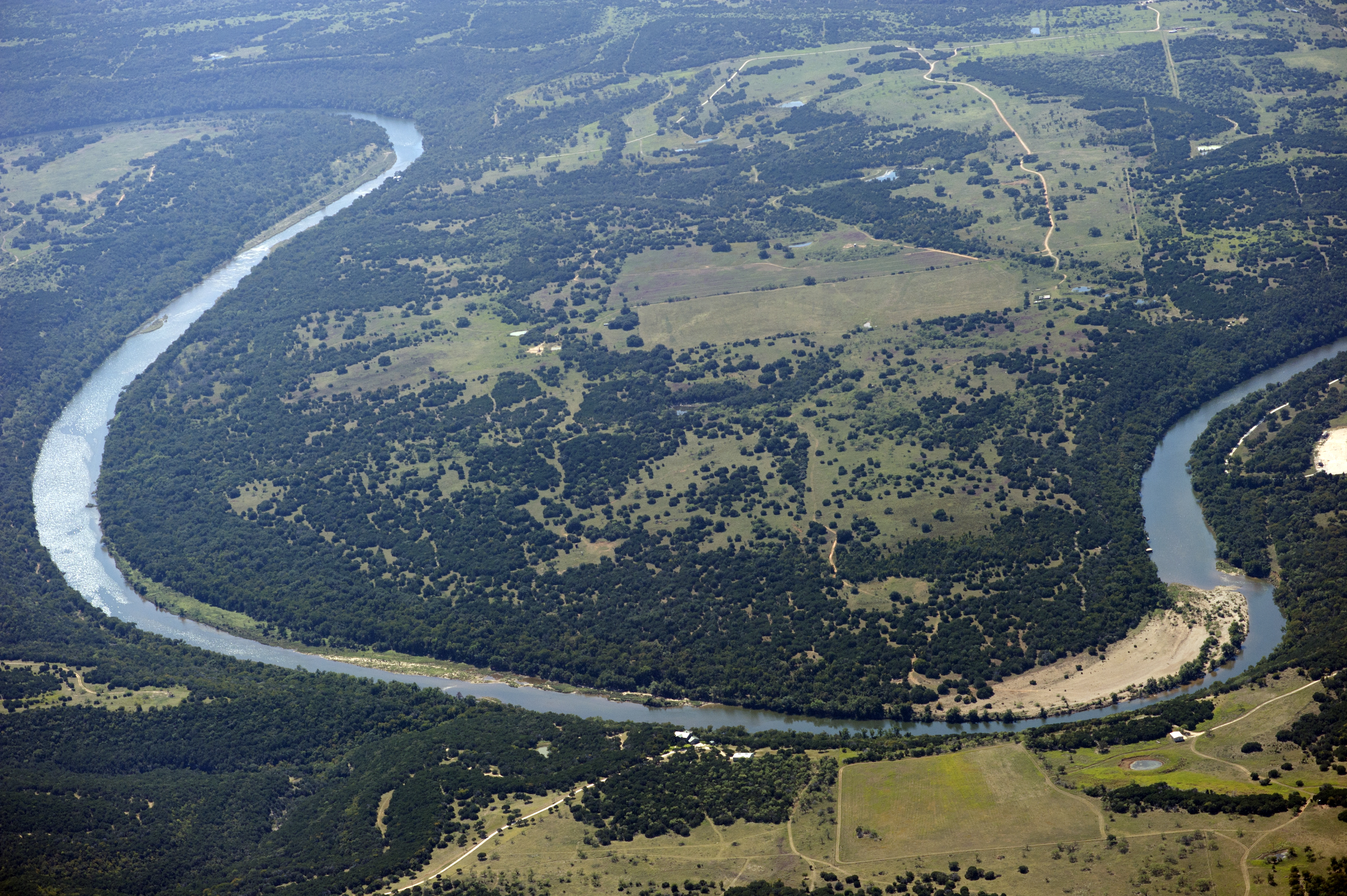 Brazos River, just below Possum Kingdom Lake, Texas